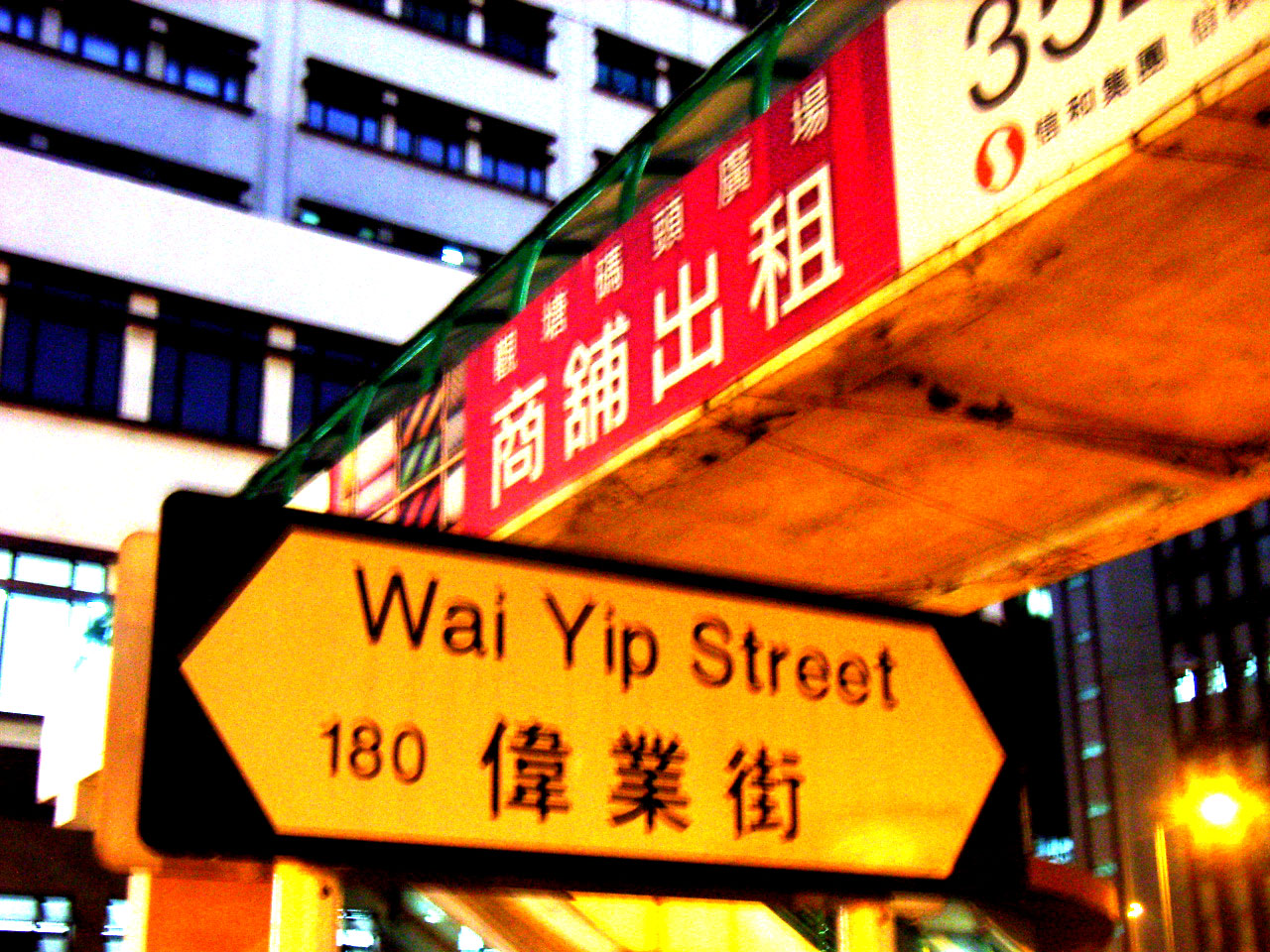 觀塘碼頭廣場